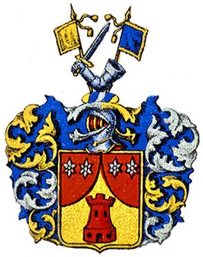 Arms of the House of Ridderstedt (1691-1922) Place: Sweden